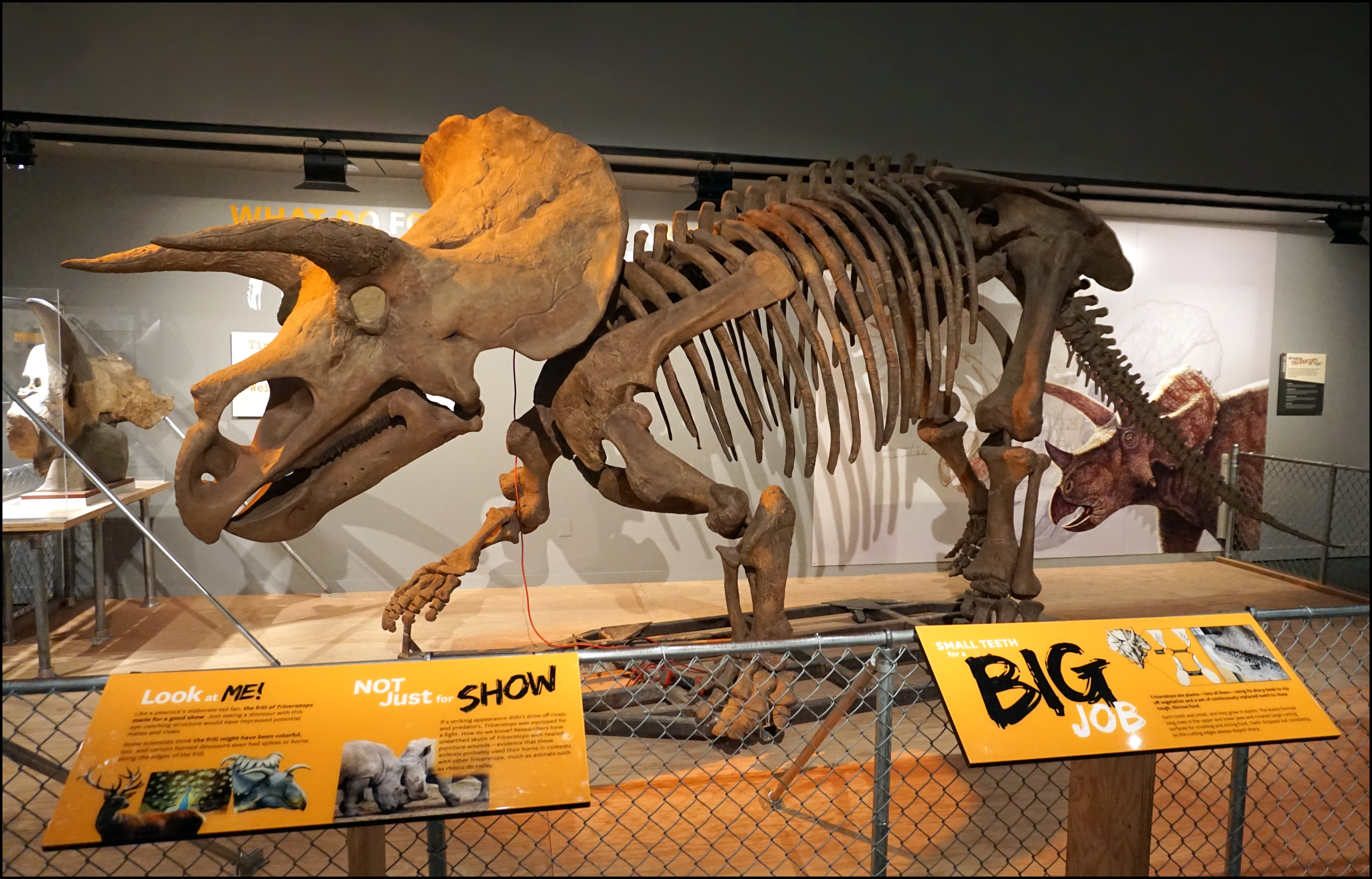 A Triceratops on display in The Last American Dinosaurs exhibit at the National Museum of Natural History in Washington, D.C. (United States).